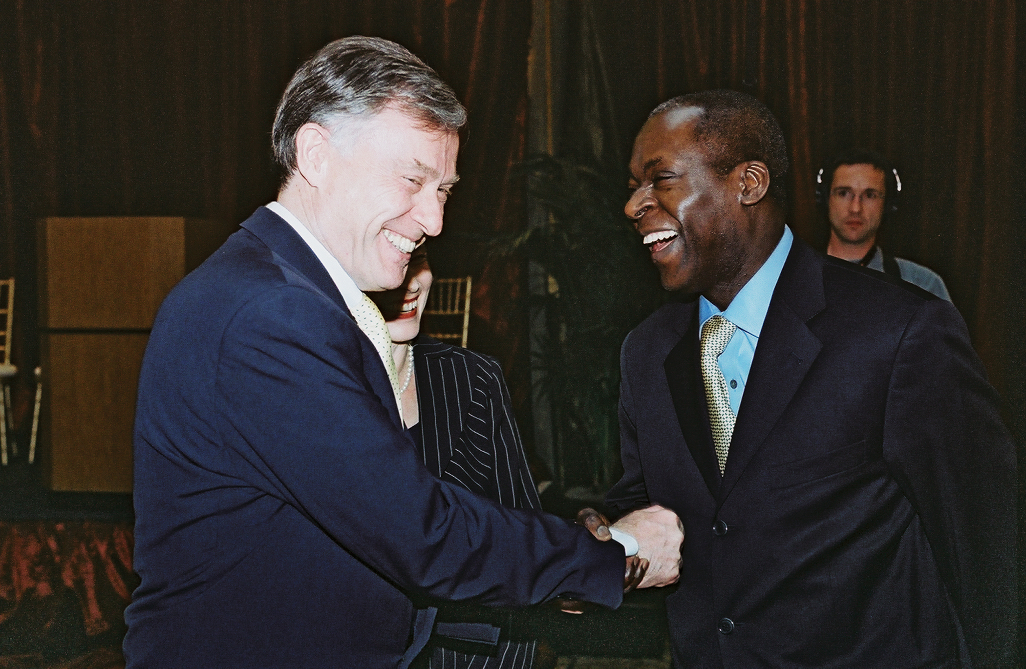 Horst Köhler with